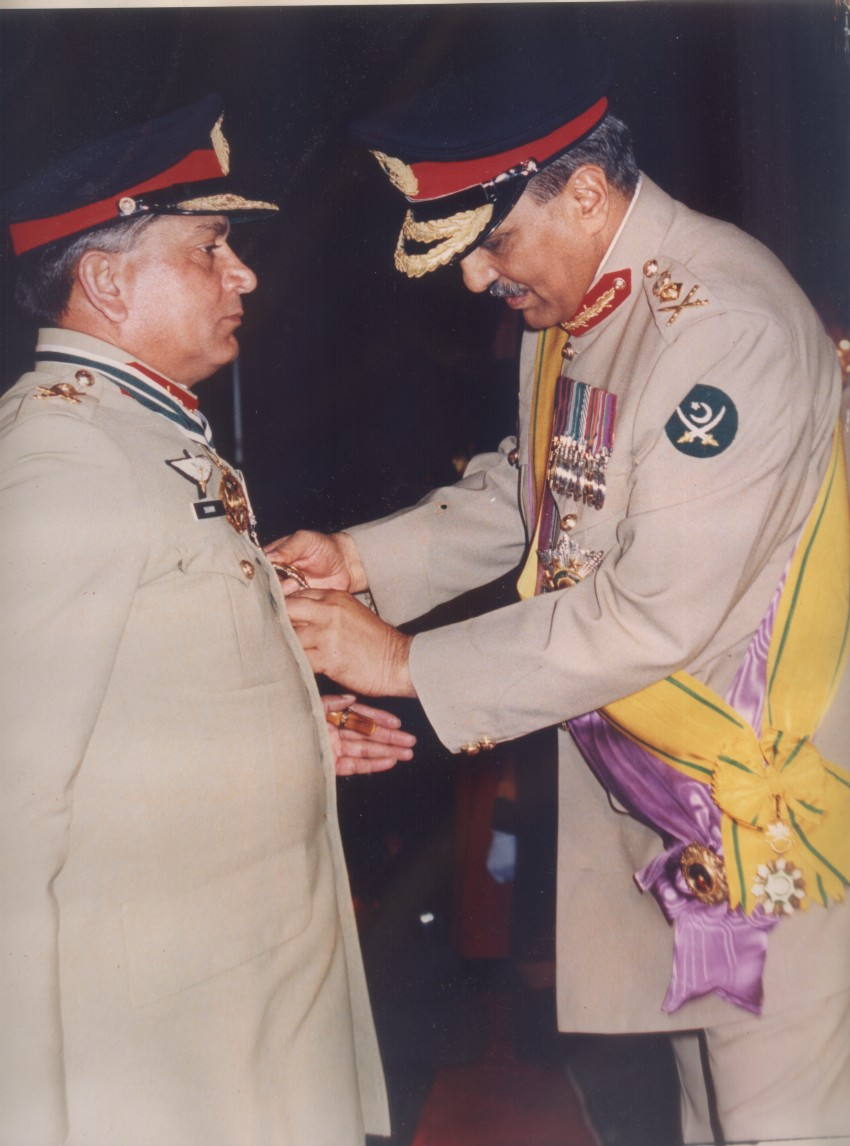 General Shamim Alam Khan receiving the Hilal-i-Imtiaz from President Muhammad Zia-ul-Haq